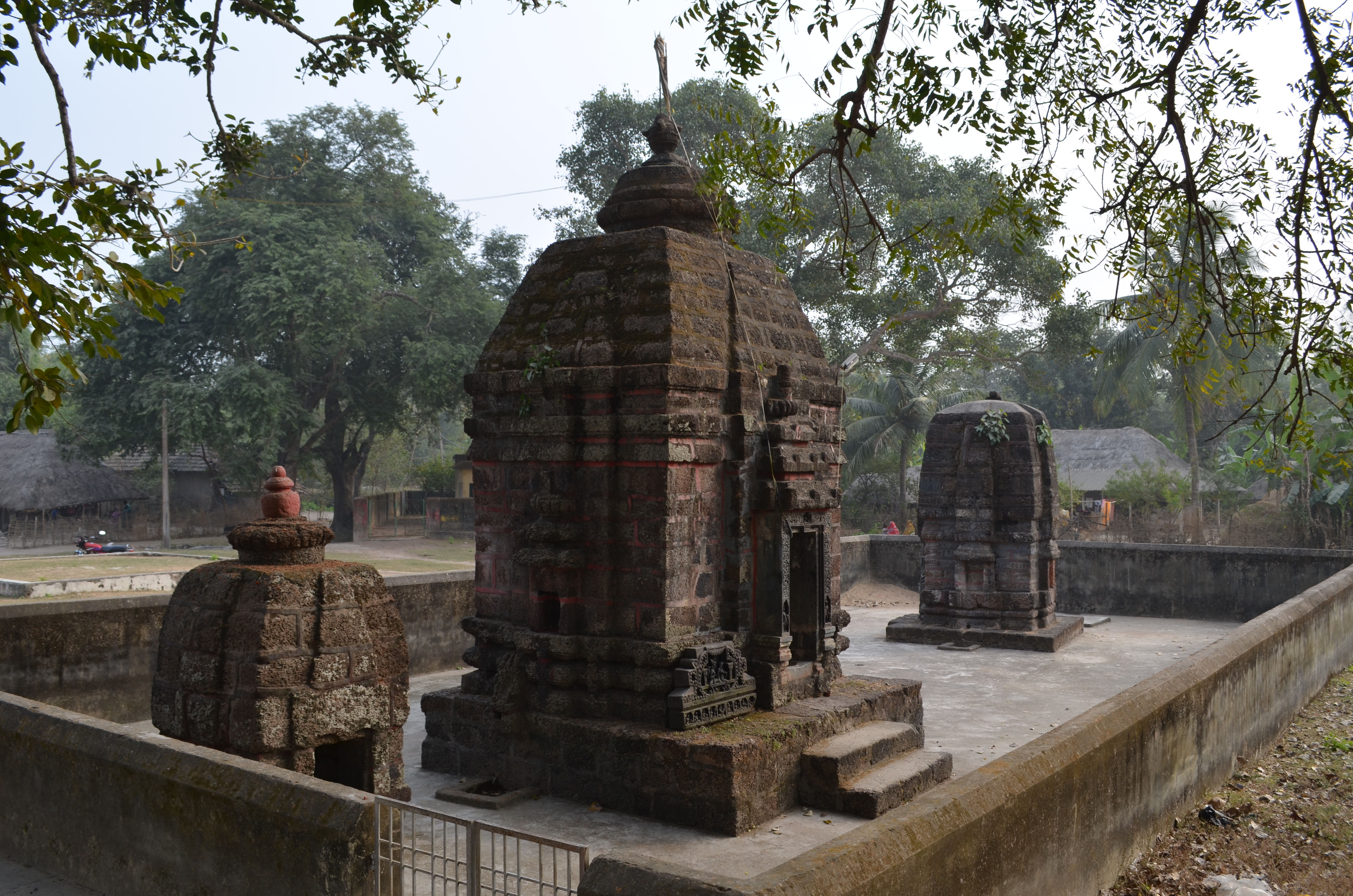 Khajuresvara group of temples, Sergarh, Balasore district, Odisha.